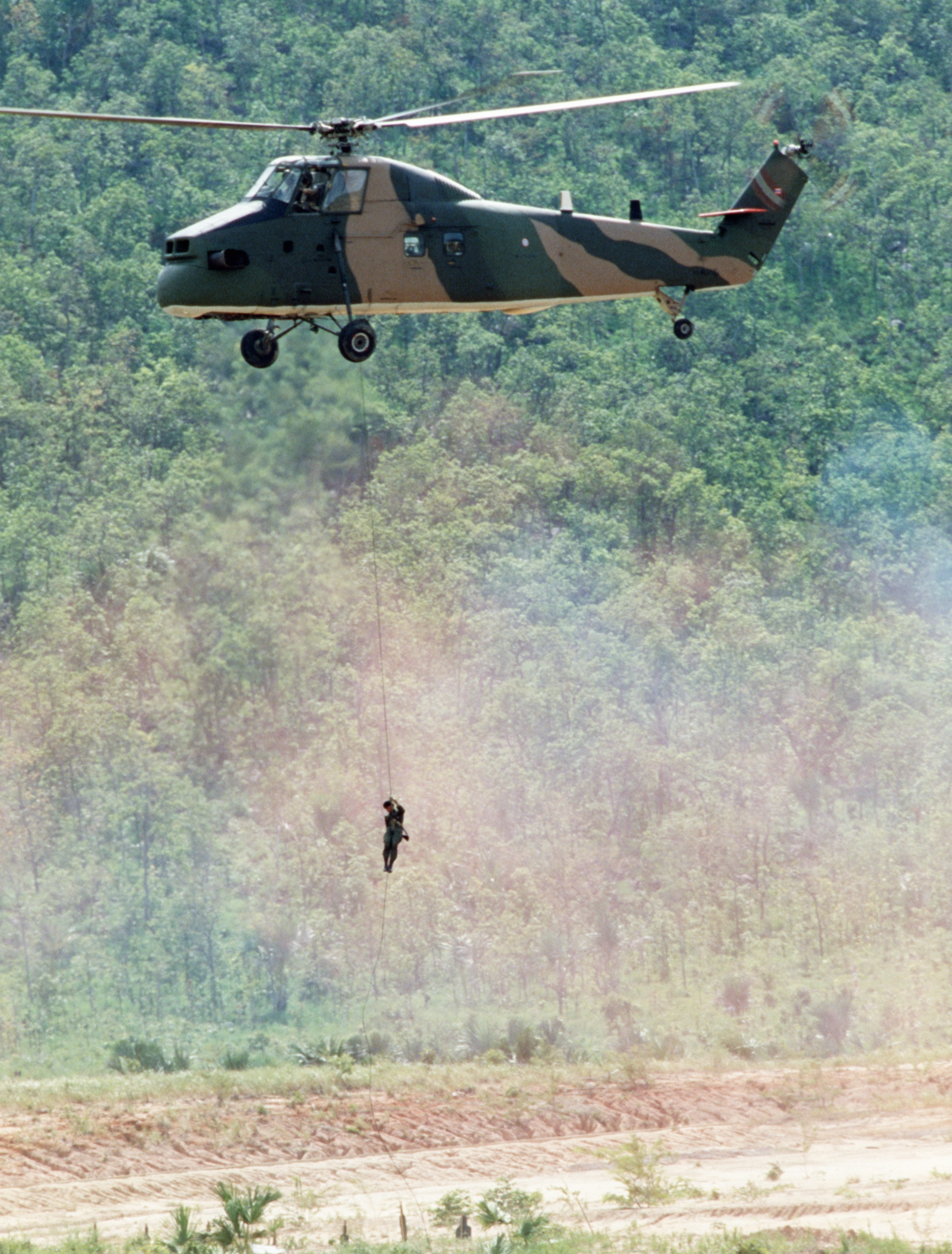 A Thai pararescuemen rappels from a hovering Sikorsky S-58T helicopter while while participating in a search and rescue operation during exercise "Cobra Gold '87" on 23 July 1987.